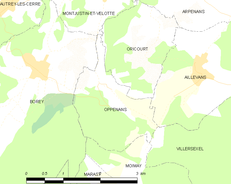 Map of French municipality